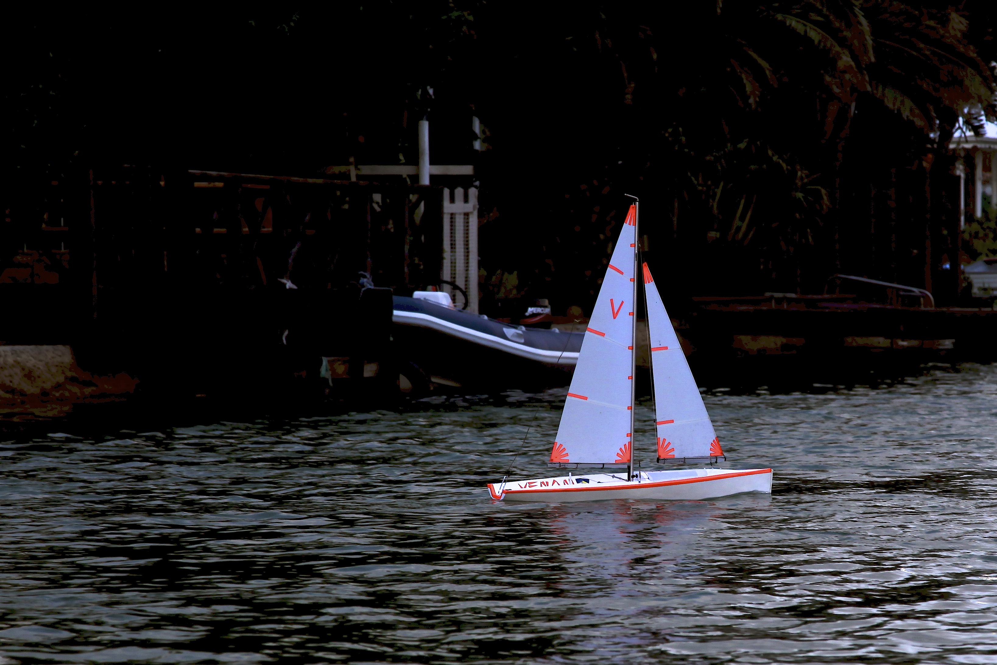 Remote controlled yacht in the Marina Martinique in Aston Bay, South Africa